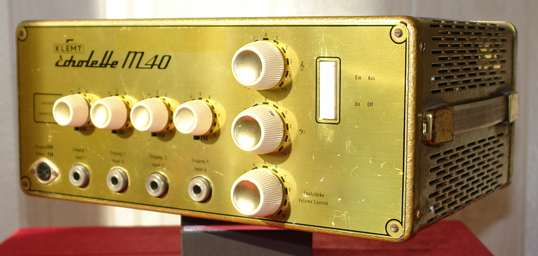 Klemt Echolette M40 four channel valve amplifier. Model shown as used by the Beatles in the early 1960s.